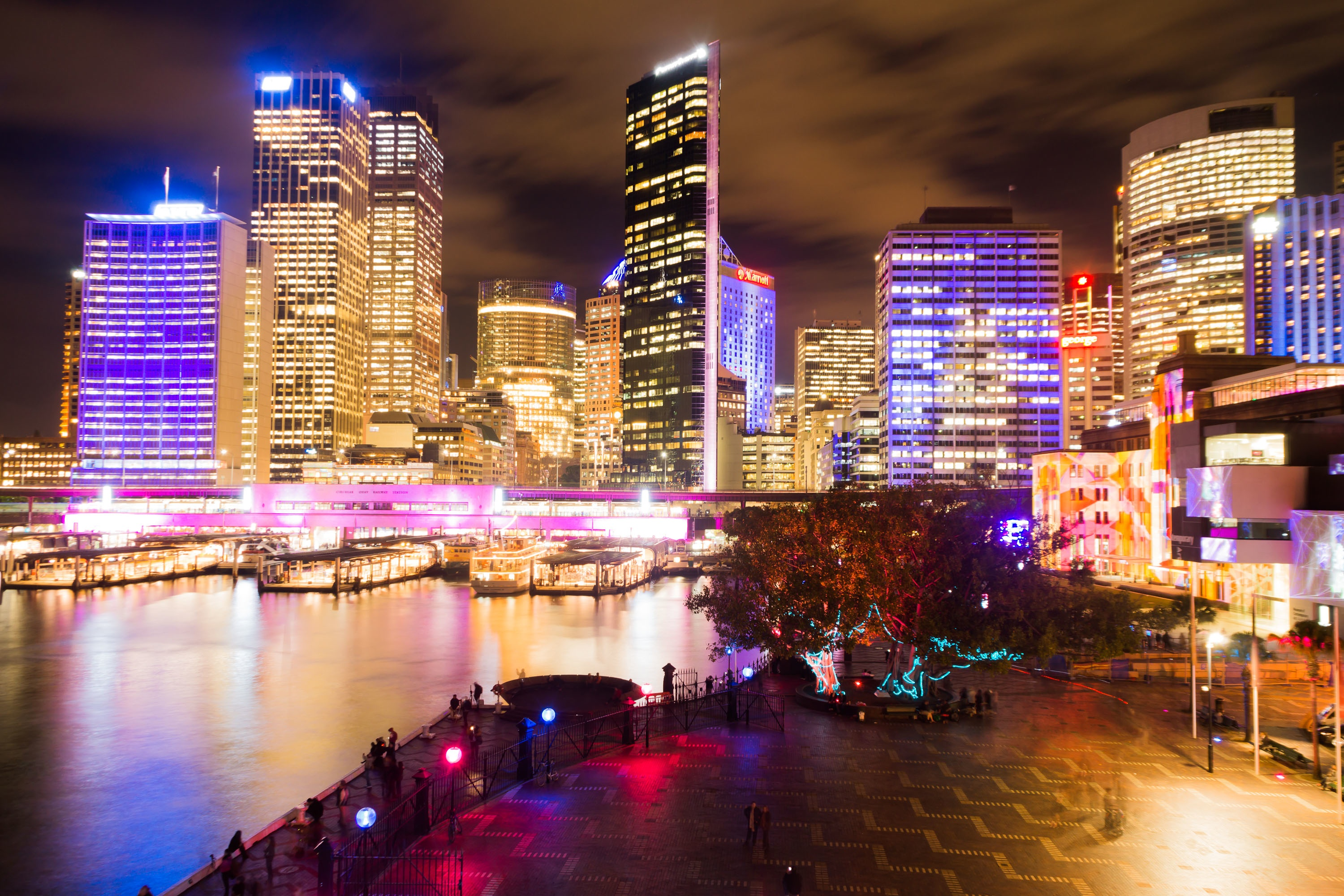 Circular Quay ferry wharf during Vivid Sydney 2012.